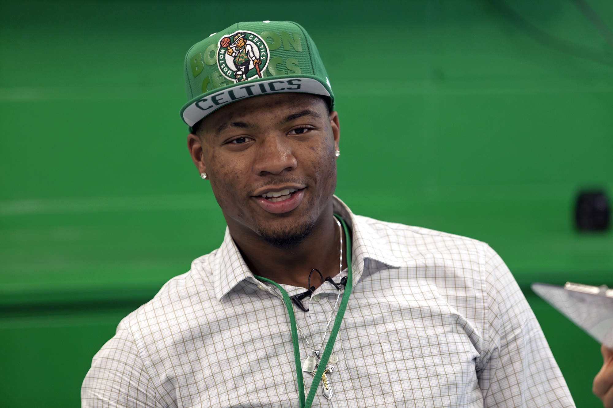 Marcus Smart of the Boston Celtics, days after being drafted